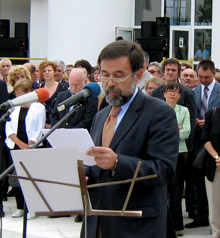 Gašo Knežević, Minister of Education and Sports from 2001 to 2004, during the opening ceremony of the monument to Zoran Đinđić in Prokuplje